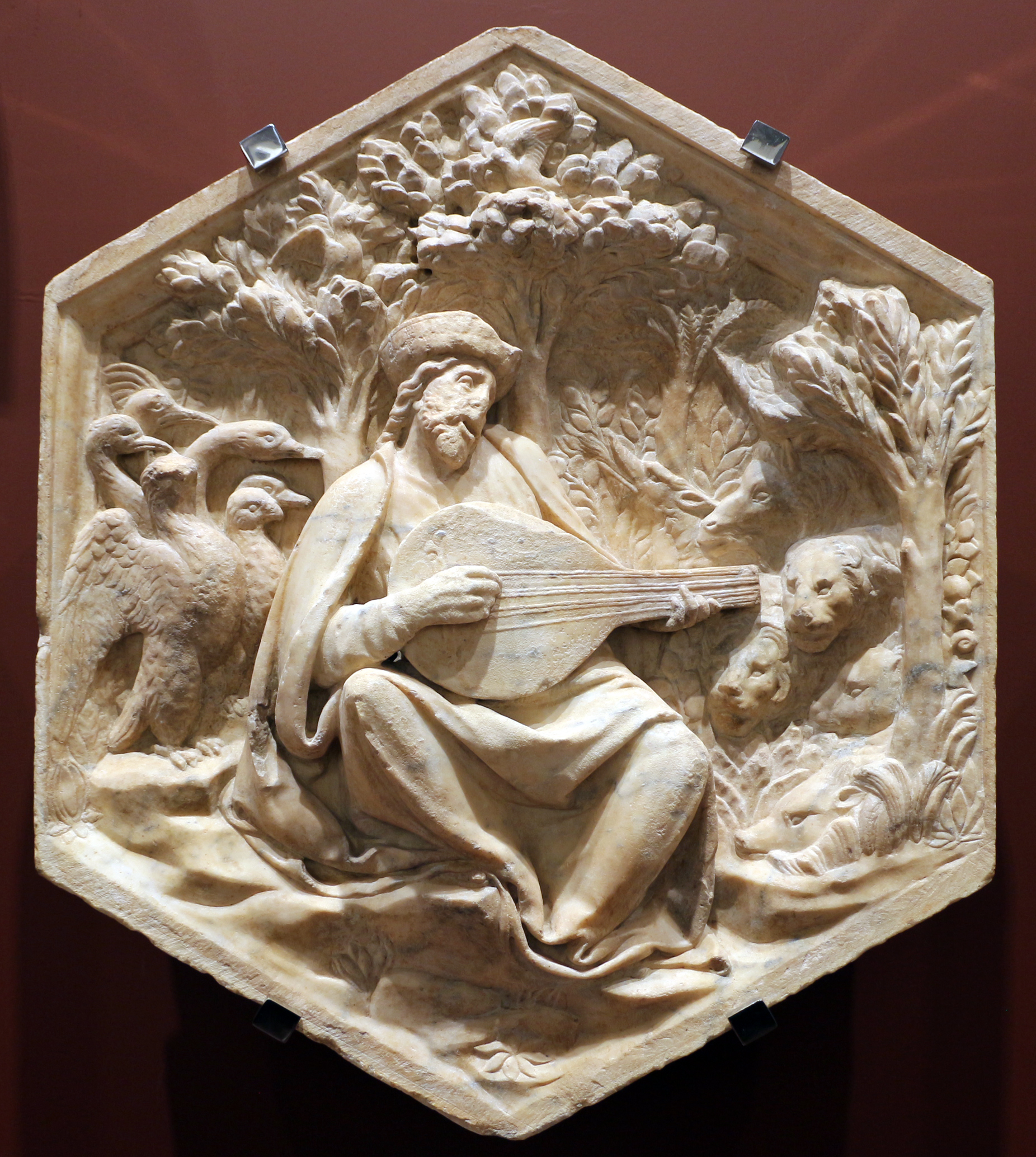 Reliefs of the Giotto's Belltower by Luca della Robbia